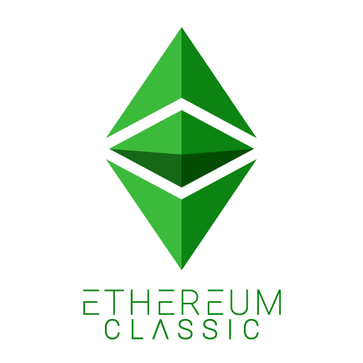 Ethereum Classic ETC Logo